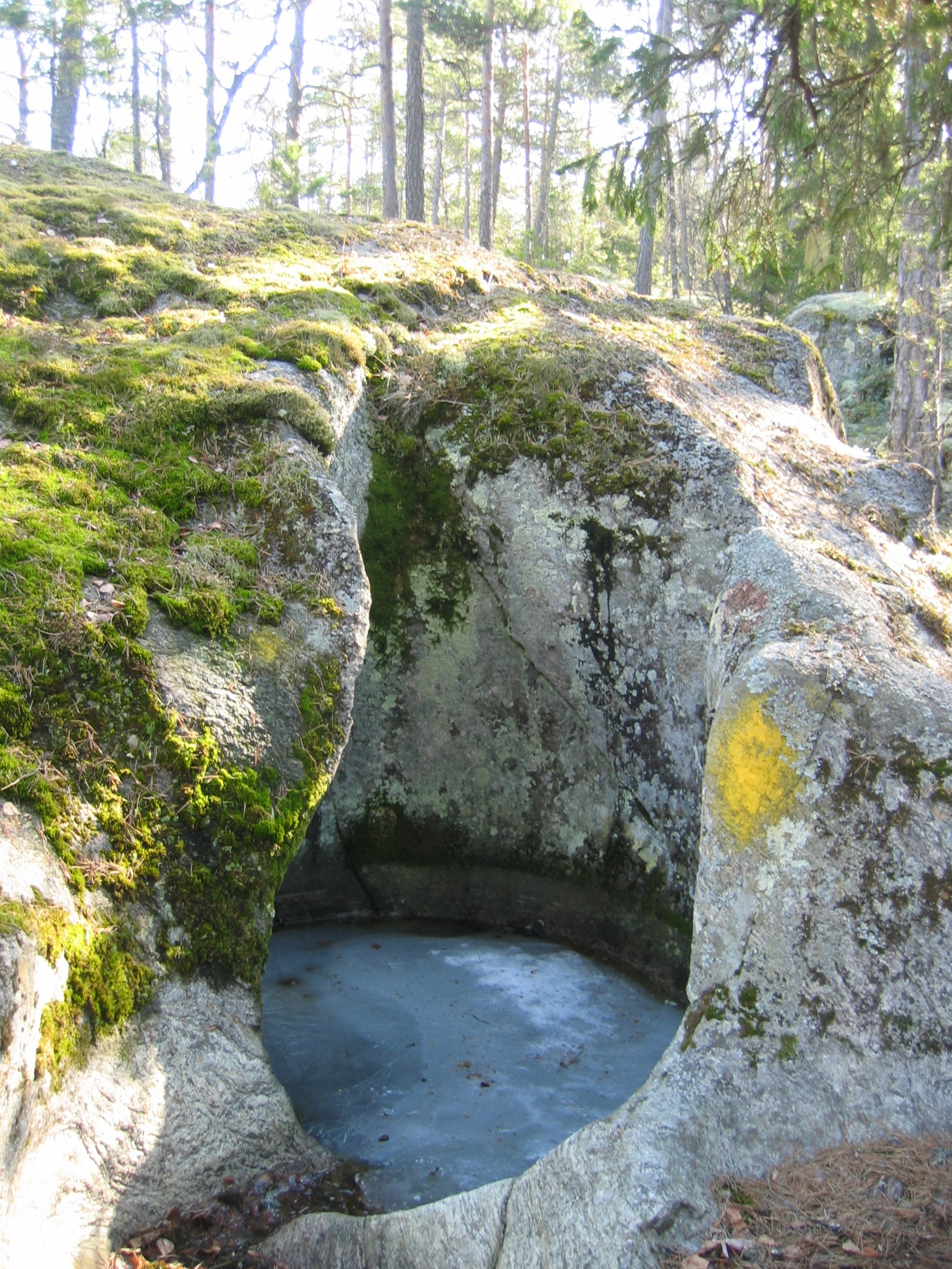 A giants kettle on Mannuistenvuori, Mietoinen, Finland